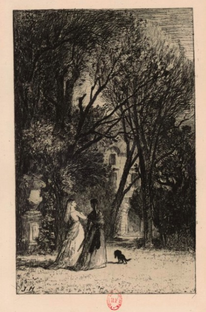 Rêverie by Jules Héreau, illustration for Léon Laurent-Pichat, in Sonnet et eaux-fortes, published by Philippe Burty & Alphonse Lemerre.